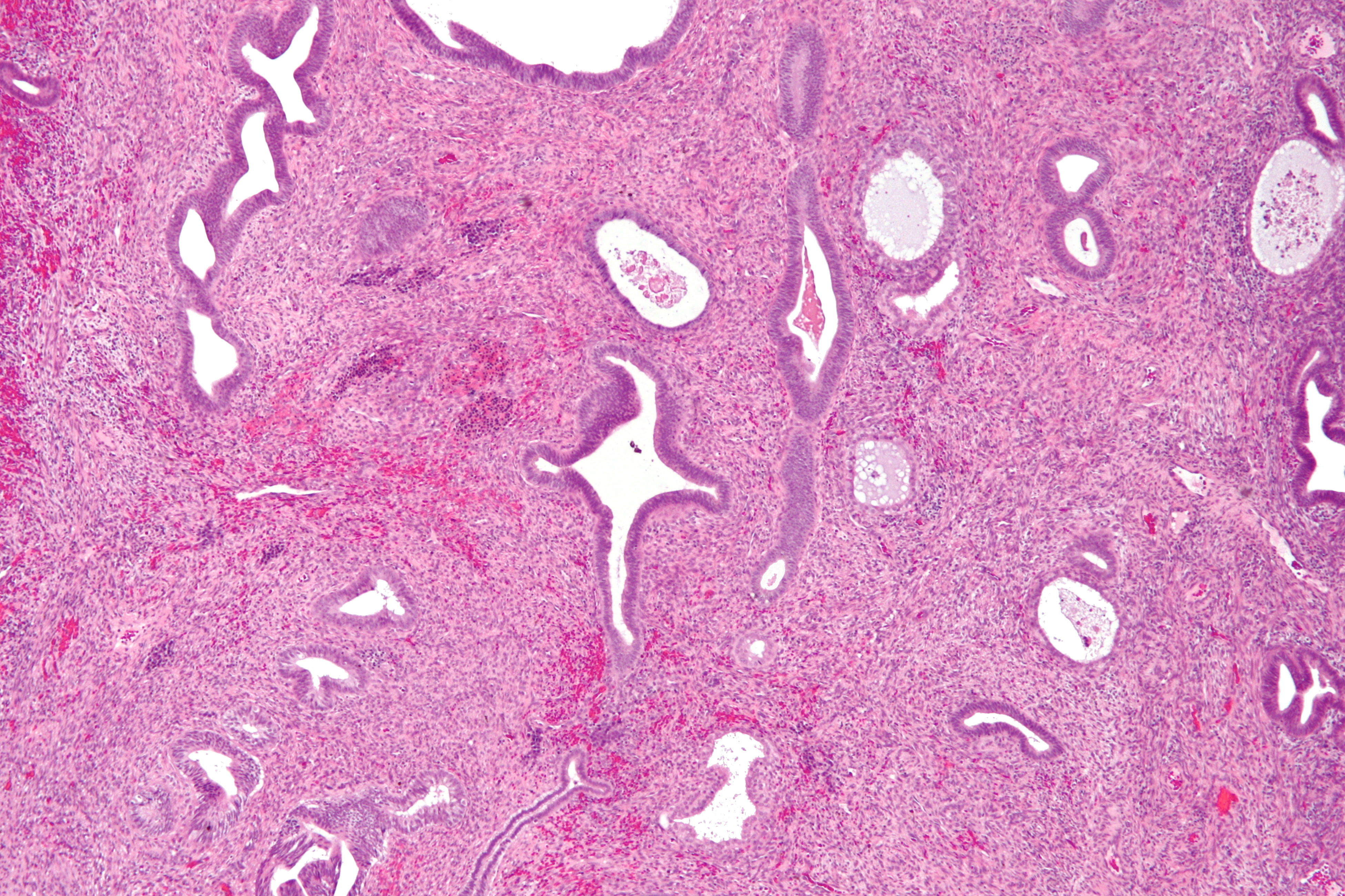 Low magnification micrograph showing nucleated red blood cells, as may be seen in extramedullary haematopoiesis, in an endometrial polyp. H&E stain. Related images Intermed. mag. High mag.